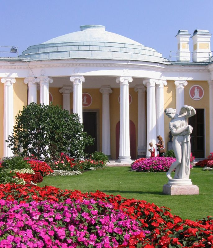 Summer in Tsarskoye Selo near St. Petersburg. Wikipedia: Tsarskoye Selo (Russian: Ца́рское Село́; may be translated as "Tsar’s Village") is a former Russian residence of the imperial family and visiting nobility 24 versts (km) south from the center of St. Petersburg. It is now part of the town of Pushkin and of the World Heritage Site Saint Petersburg and Related Groups of Monuments.